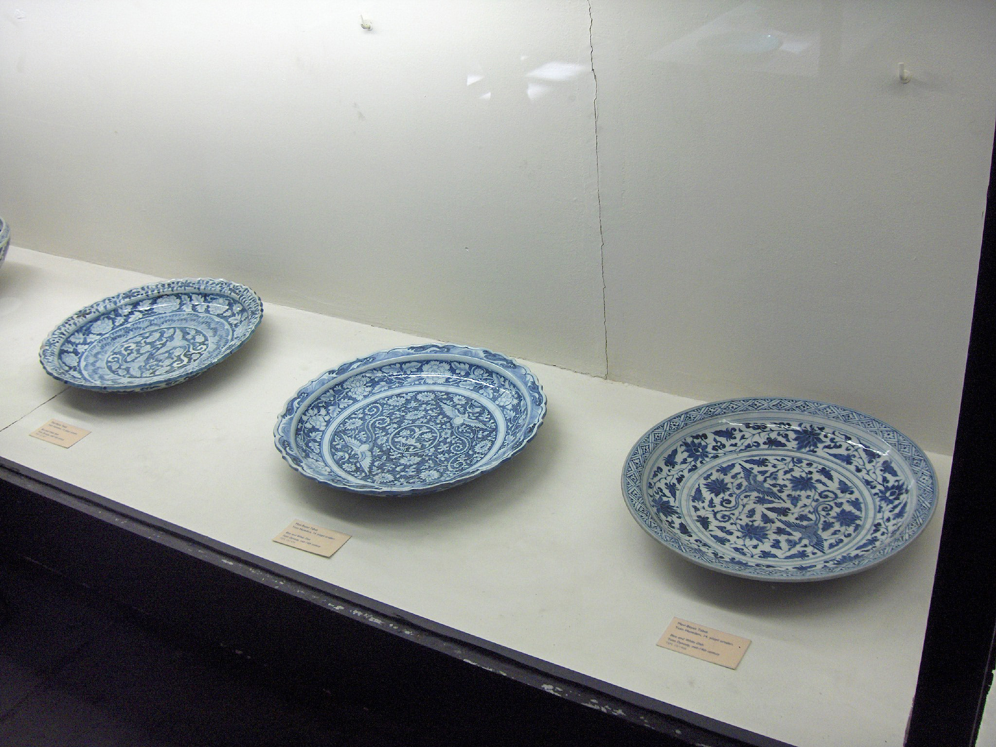 Kitchen; collection of Chinese porcelain from the blue-and-white collection; Topkapı Palace, Istanbul, Turkey